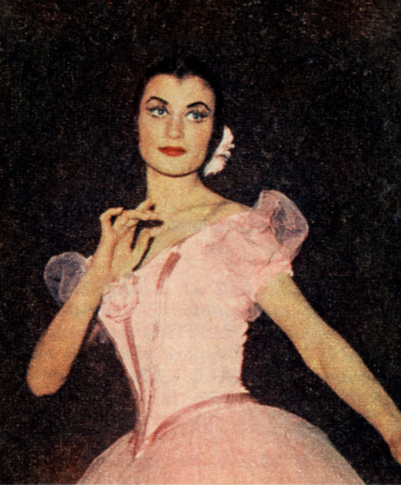 photo from the magazine Radiocorriere (1957)